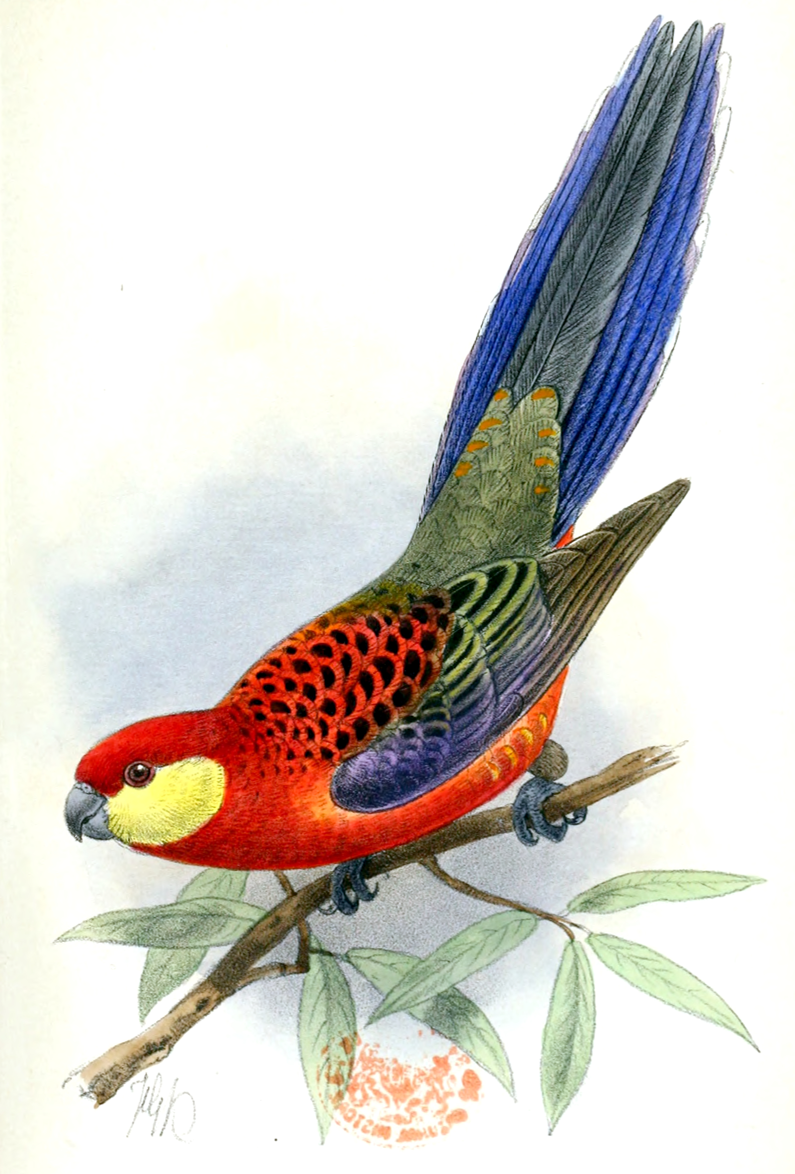 Plate in text illustrating a new species Platycerus xanthogenys, a synonym for subspecies Platycerus icterotis xanthogenys. The page was cropped and crudely lifted with white point at levels